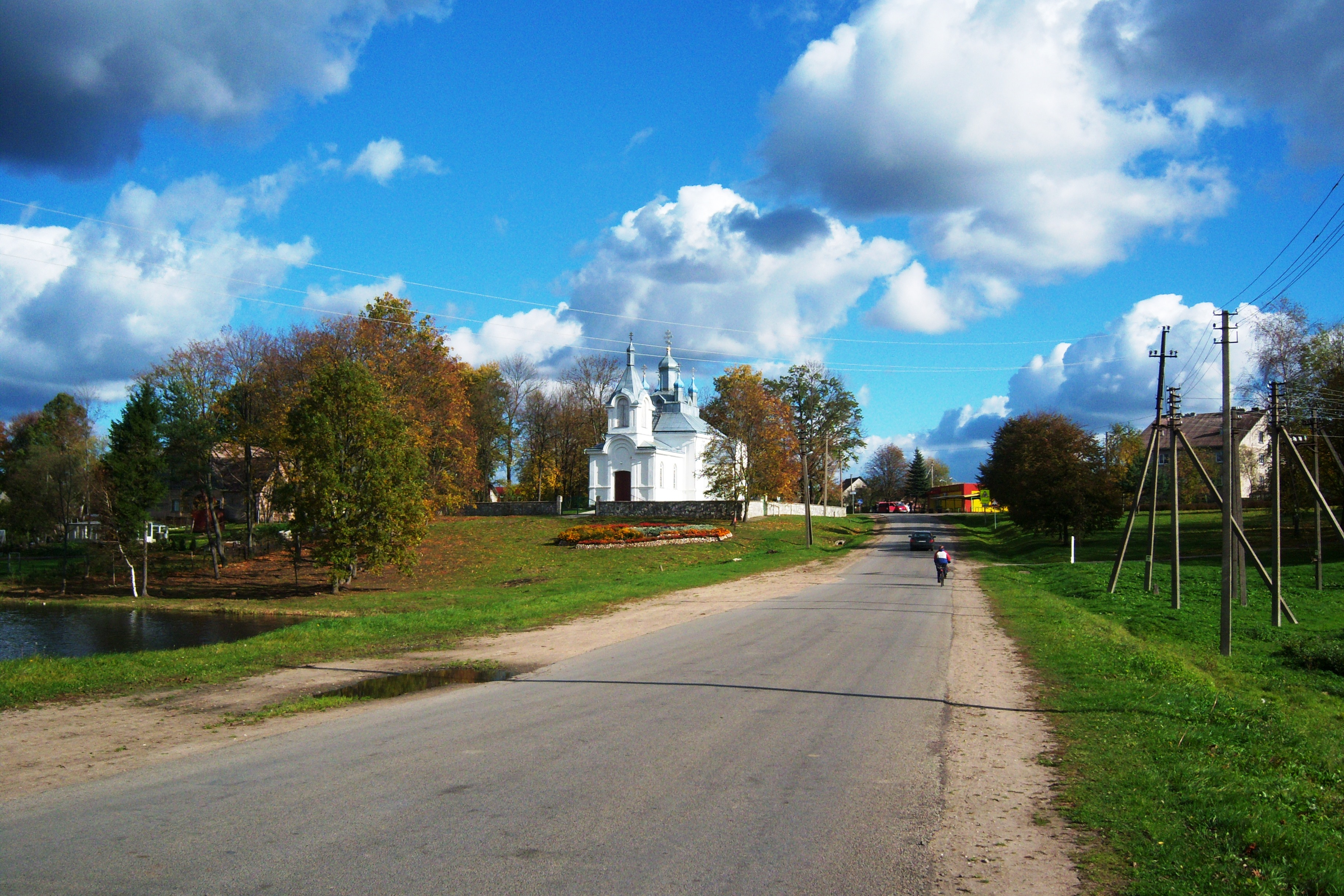 Orthodox Church in Užusaliai, Jonava District, Lithuania